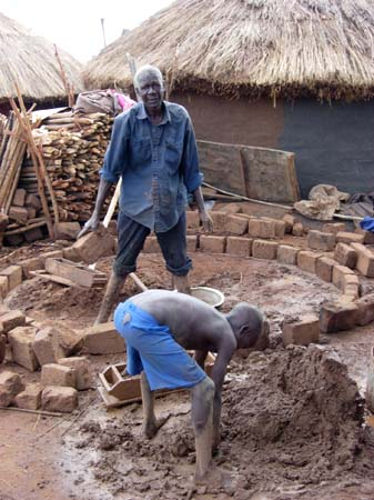 Original caption states "Building a new shelter at the Kitgum camp for internally displaced persons." In the Kitgum District, Northern Region of Uganda.